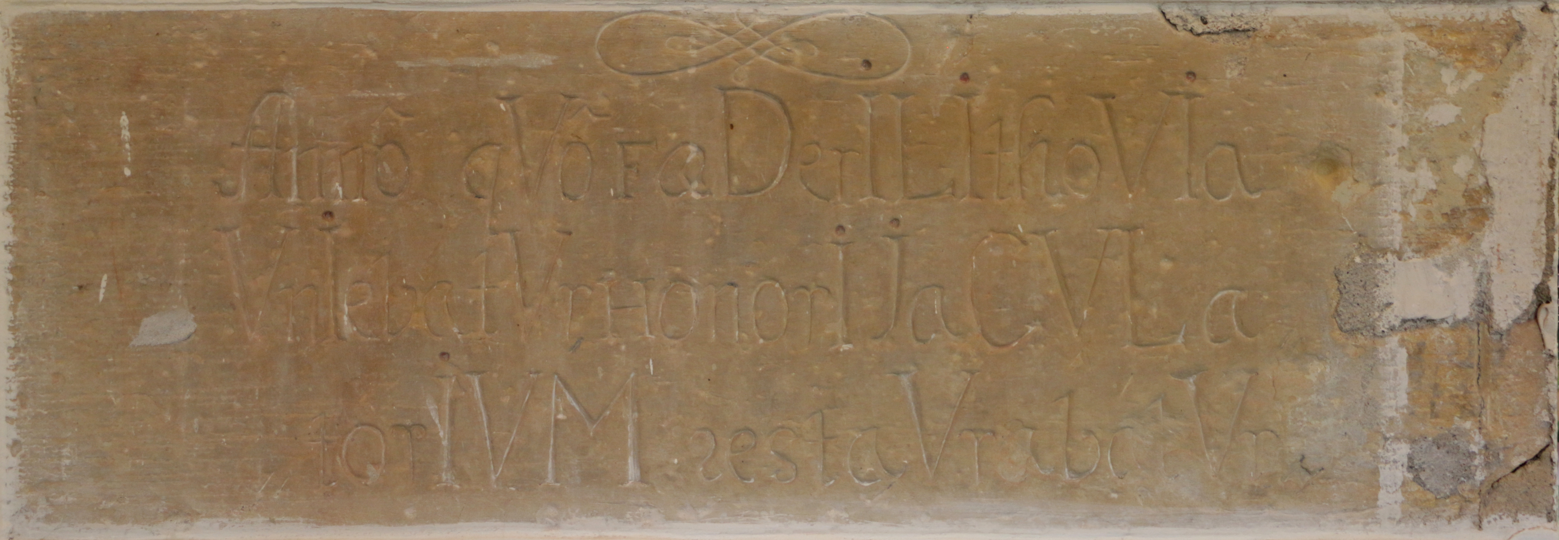 A sandstone plaque in Museum Litovel, with the Latin inscription Anno quo foederi Lithovia uniebatutor honori iaculatorium restaurabatur. The plaque is placed in the first floor of the museum left of the entrance into the exhibition halls. The chronogram in the inscription gives the year 1747.